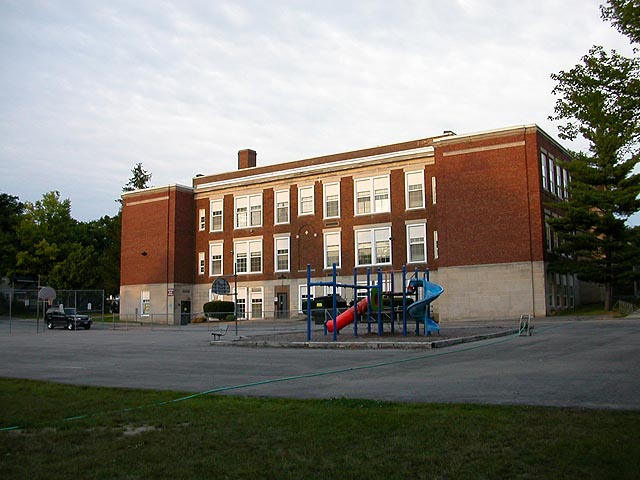 Hudson Elementary is a 1915/1916 school building located on North Oviatt Street in Hudson, Ohio. As of the 2007-2008 school year, Hudson Elementary is no longer used as classroom space. August 24, 2003 by DangApricot DangApricot 03:20, 14 August 2006 (UTC)